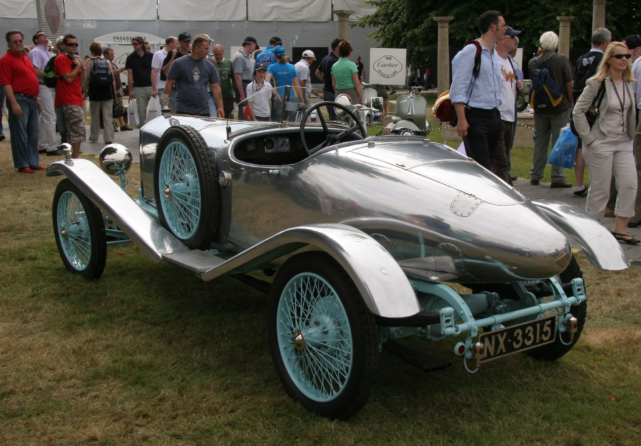 1923 Riley 11/40 2 seater sports "Redwing"